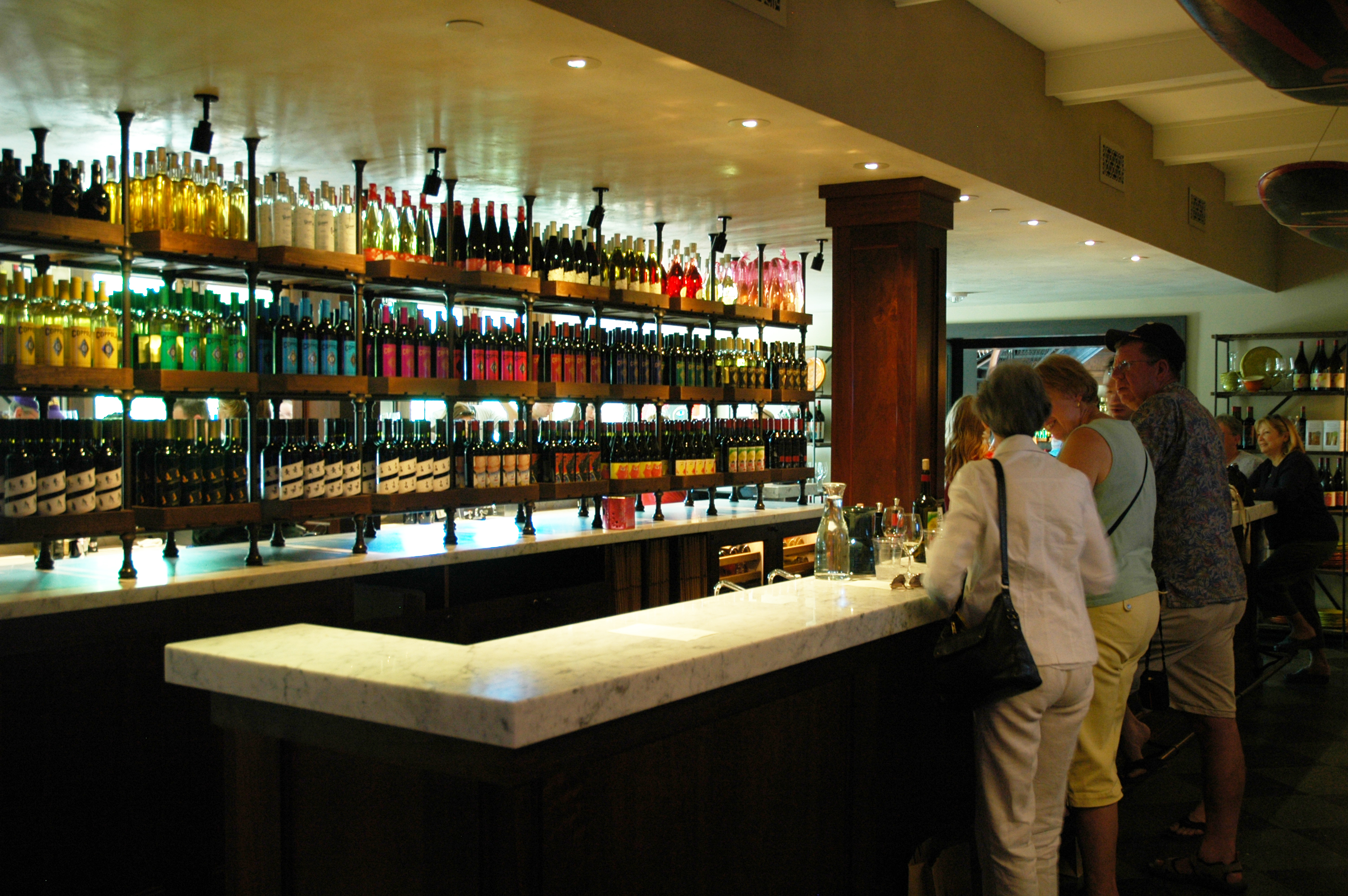 Wine bar at the Francis Ford Coppola Winery, Geyserville, California